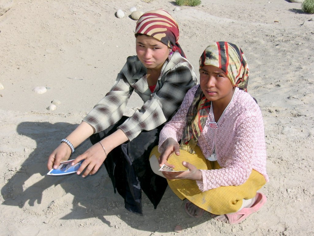 Khotan (Hotan / Hetian) is an oasis city in the Xinjiang Uygur Autonomous Region of the People's Republic of China. Uyghur people at Melikawat Ruins.